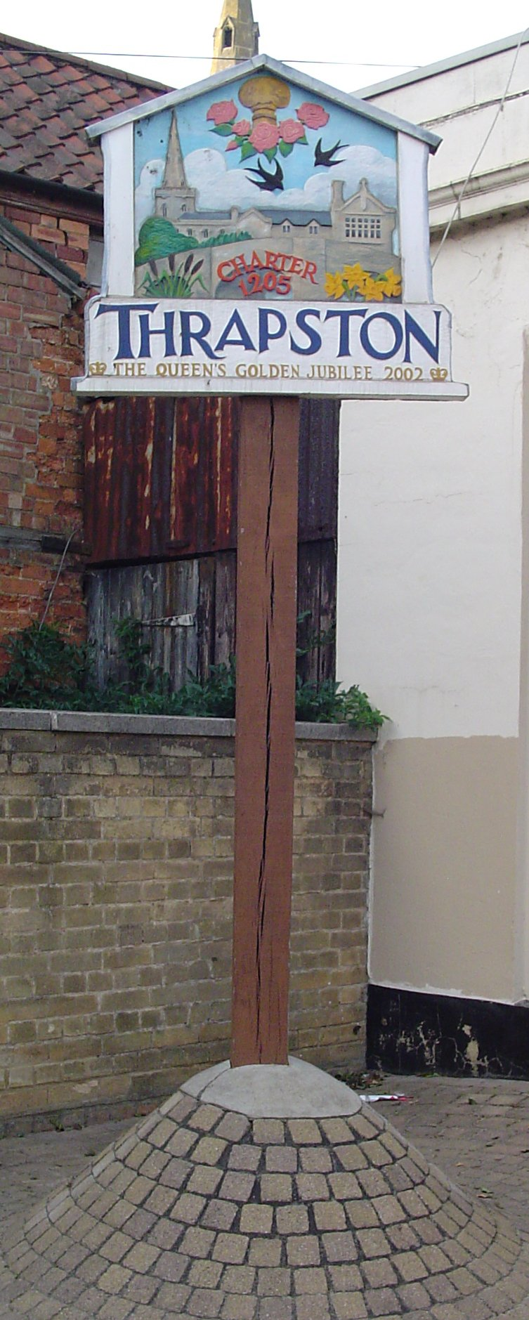 Signpost in Thrapston